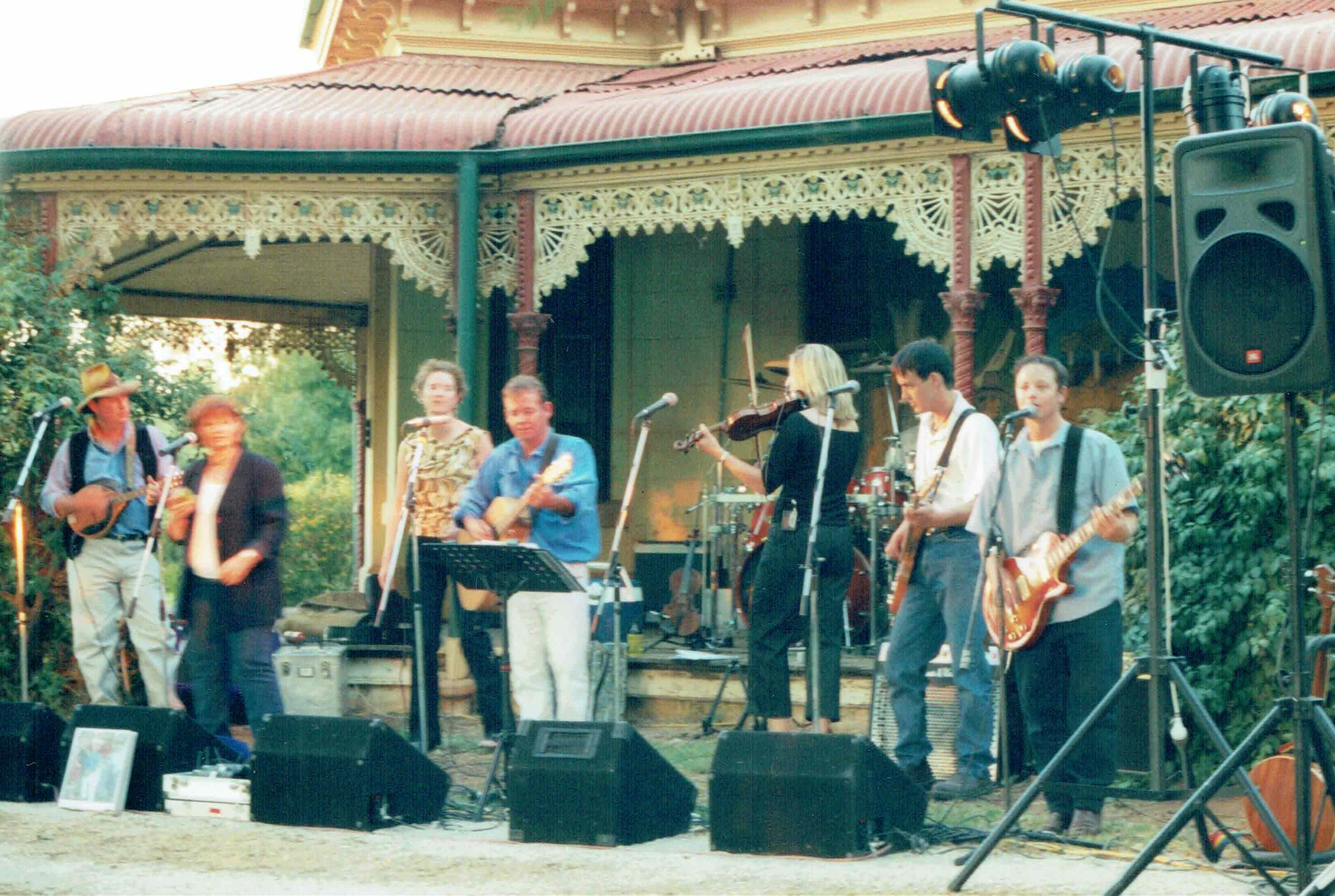 Berrigan Bushdrovers at the launch of their third album in March 2004.